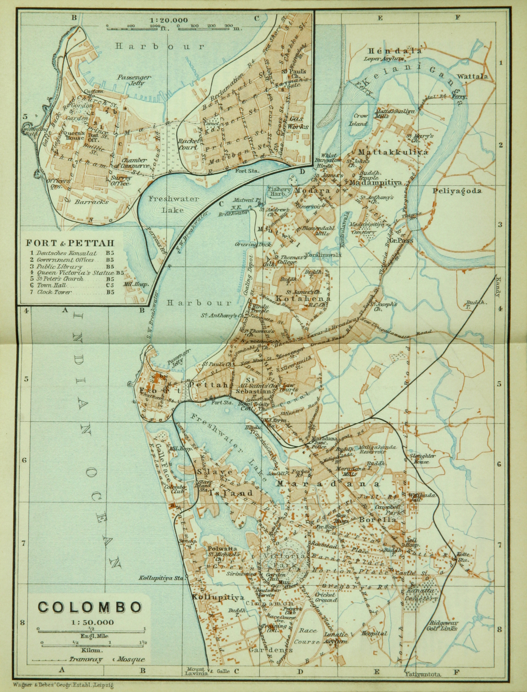 Map of the city of Colombo, ca 1914 (1:50,000), with a smaller, inserted map depicting the Fort and Pettah in detail (1:20,000). Labelled in English.